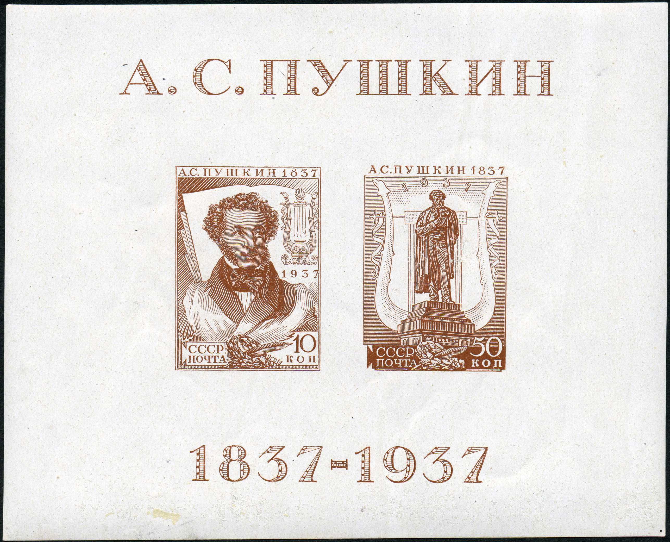 USSR stamp, The 100 anniversary from the date of death A. S. Pushkin, 1937, 10+50 k.